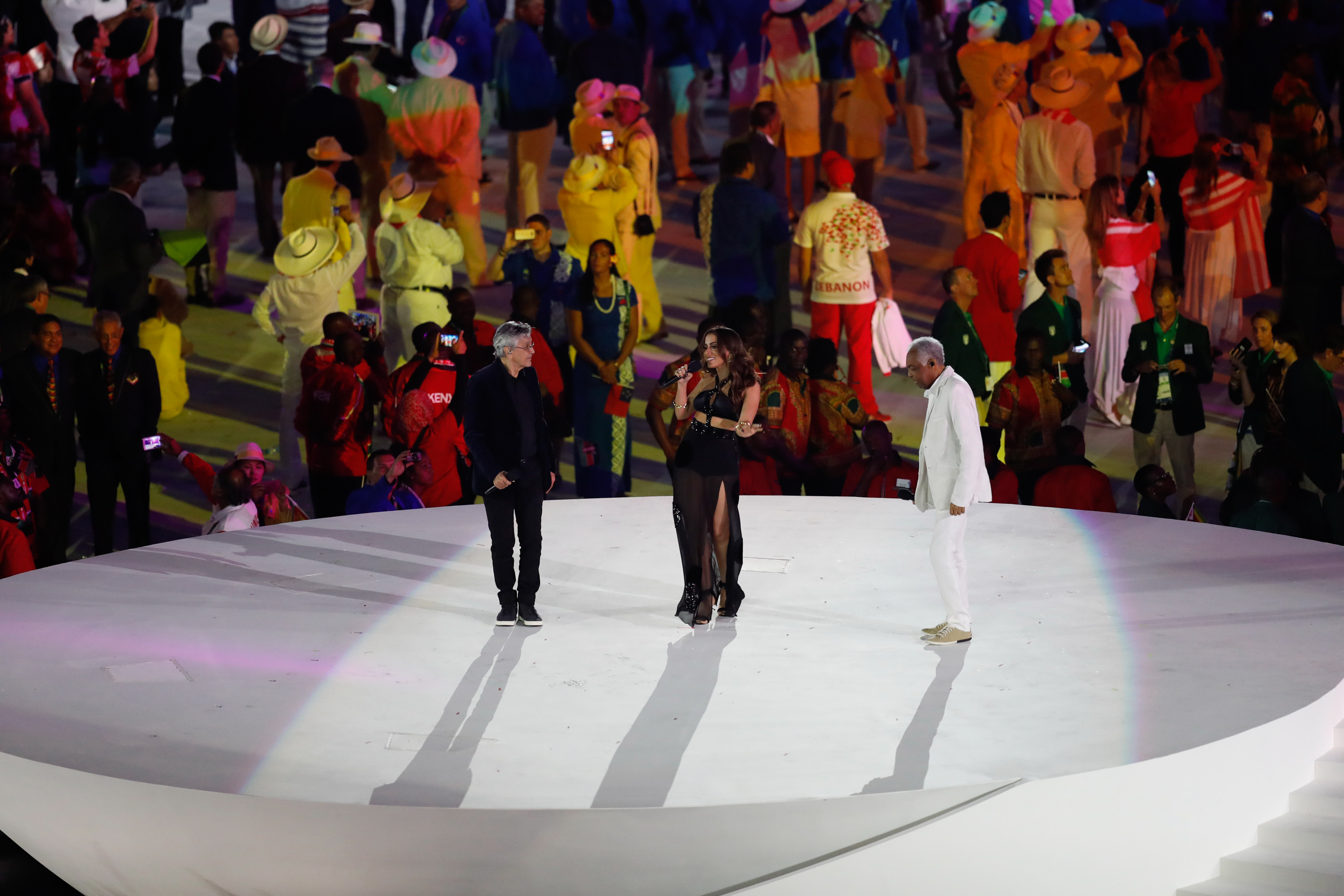 Rio de Janeiro - Cerimônia de abertura dos Jogos Olímpicos Rio 2016 no Estádio do Maracanã. (Fernando Frazão/Agência Brasil)